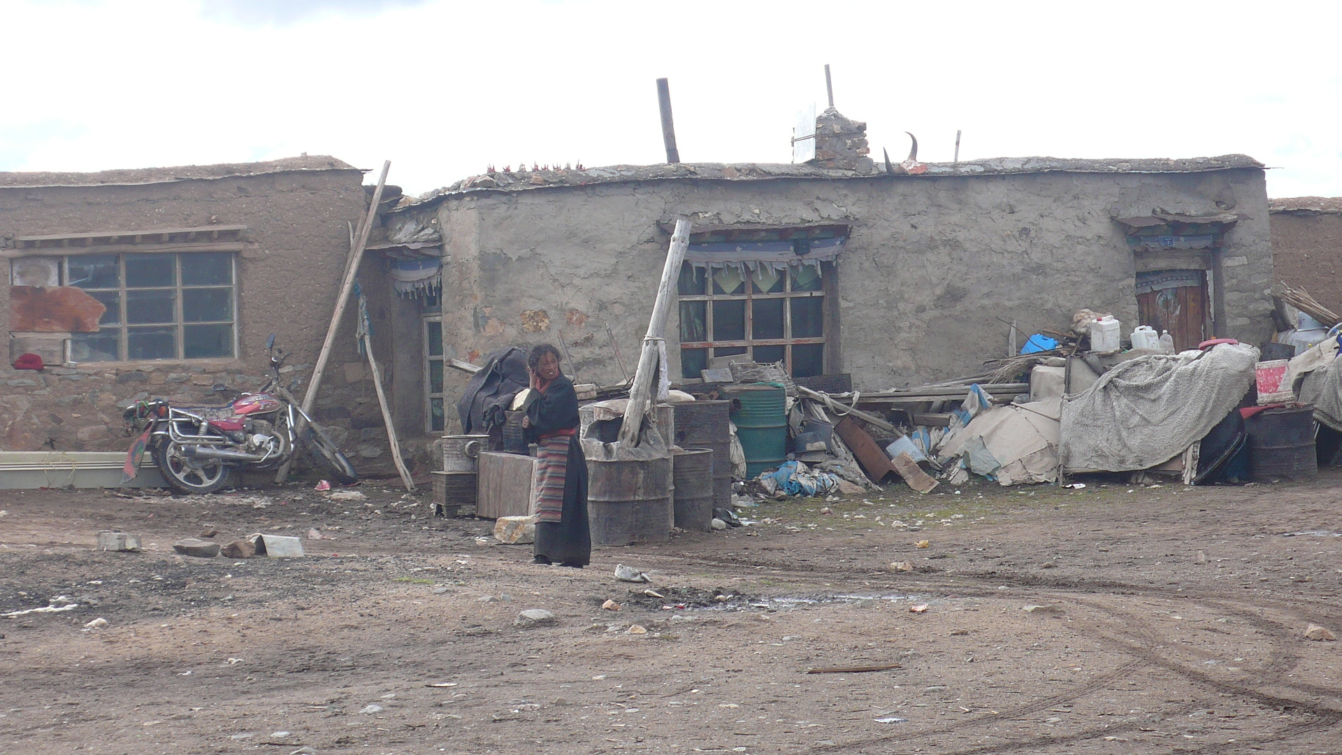 Amdo County, Tibet